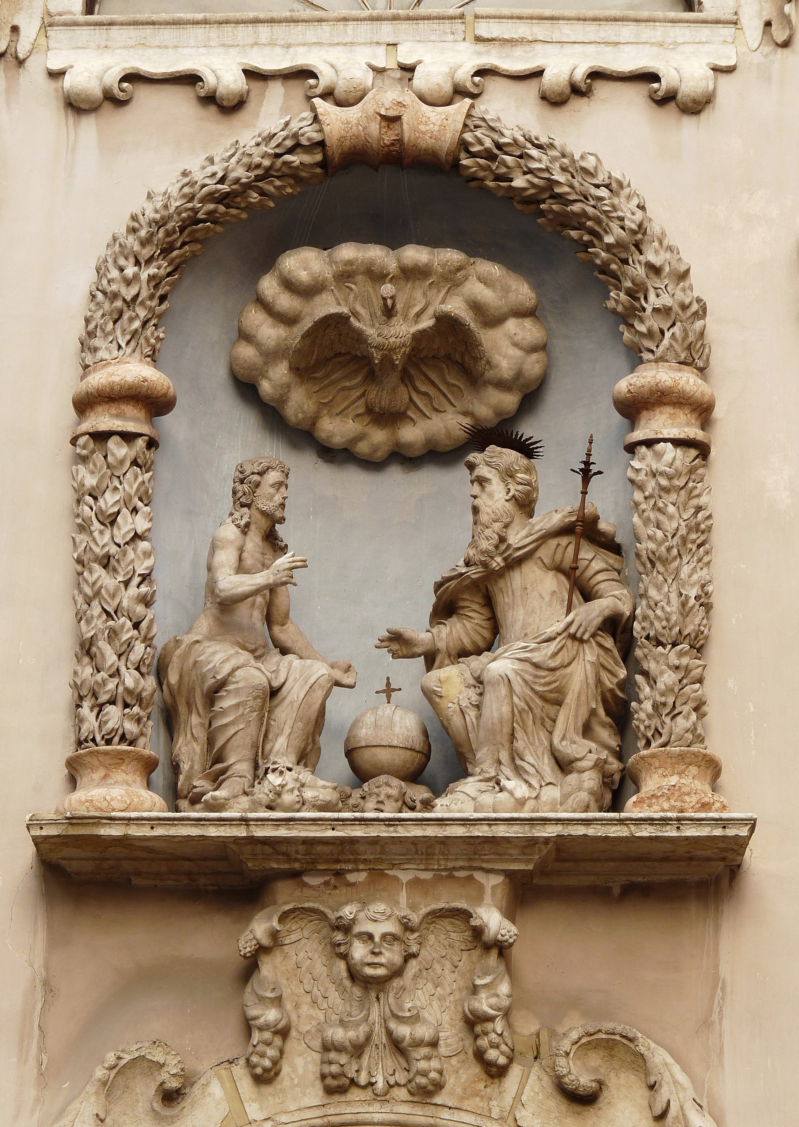 Trento (Italy): sculpture of the Holy Trinity above the portal of the church of Santa Trinità. Trento (Italia): scultura della Santa Trinità sopra al portale della chiesa della Santa Trinità.